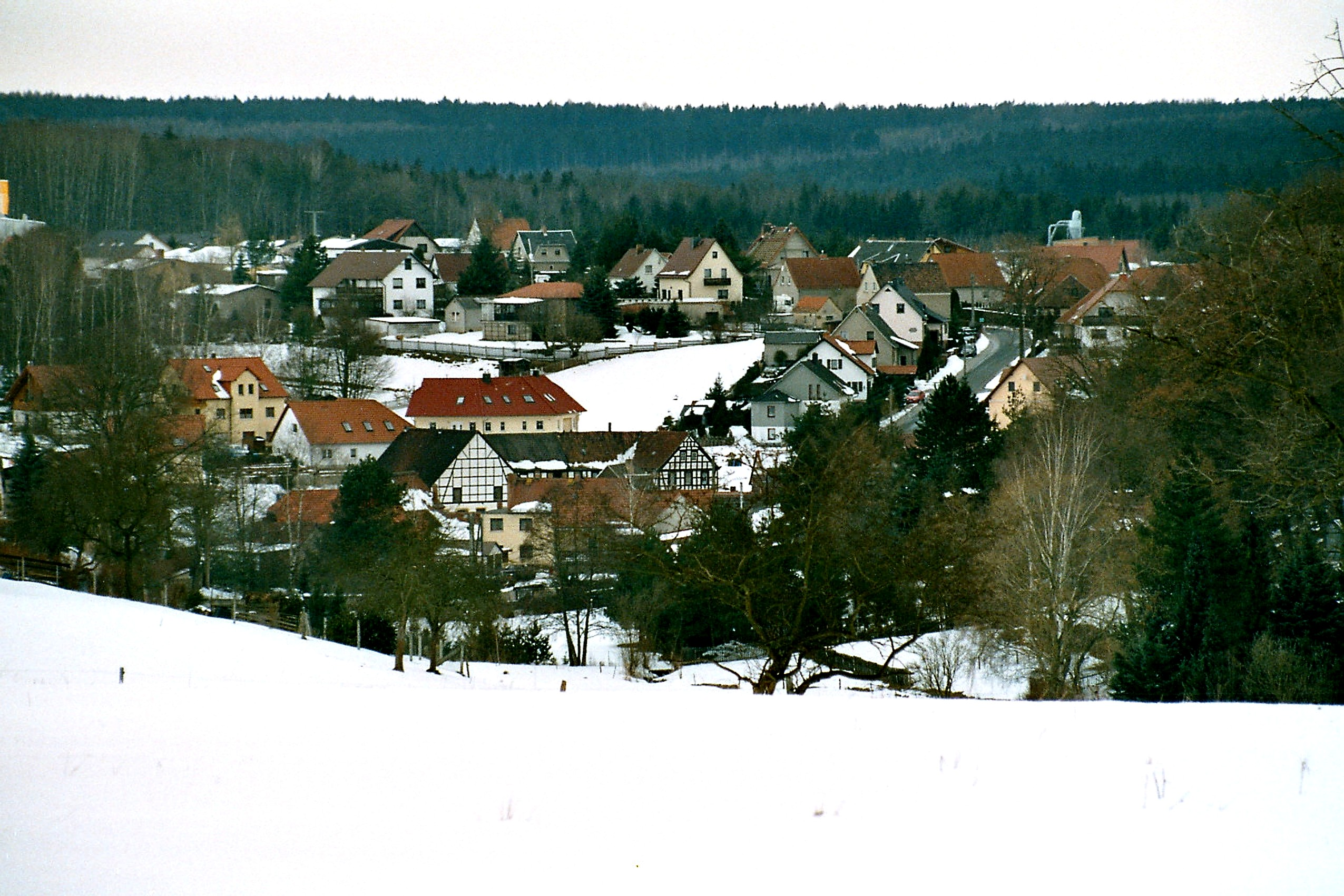 View from the road to Tautenhain to village Weißenborn